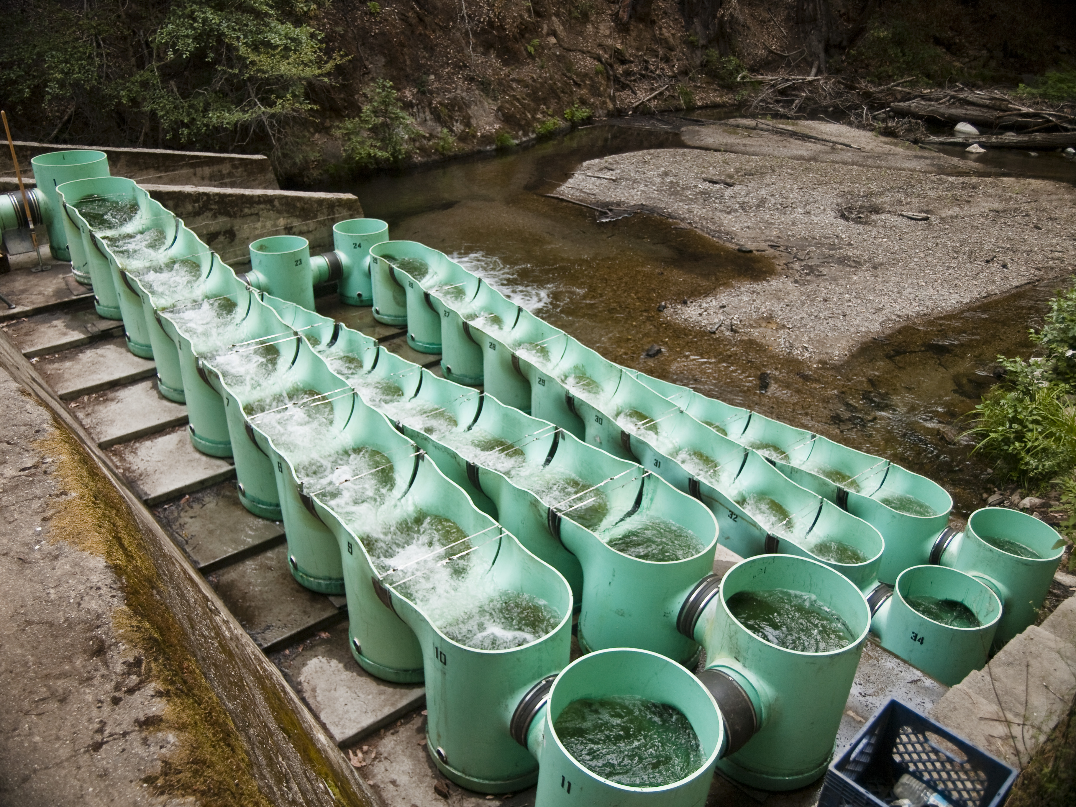 Pico Blanco Scout Reservation Fish Ladder